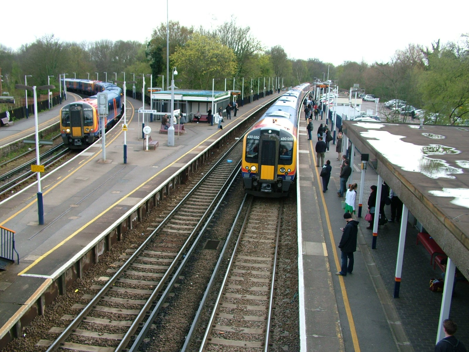 Virginia Water railway station - April 13, 2005 By Tagishsimon